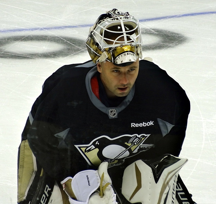 Tomáš Vokoun skates during the Pittsburgh Penguins final practice session before the start of the lockout-shortened 2012-13 NHL Season, Friday, January 18, 2013 at Consol Energy Center in Pittsburgh, PA.